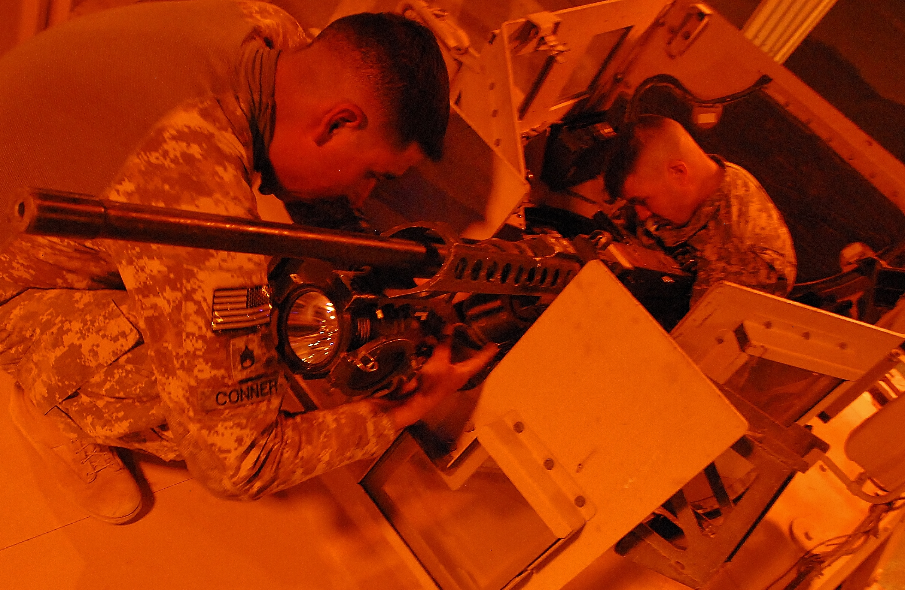 Staff Sgt. David Conner, left, helps his gunner Spc. Brandon Seaburg prepare his M2 machine gun at the border crossing of Kuwait and Iraq on Oct. 27. Conner, from Apple Valley, Minn., is on his second deployment. “It’s about weathering the hazard. It’s about applying all the hard won lessons from my last deployment to my new team.” In their first 90 days, the 1st Squadron, 94th Cavalry (the "Iron Rangers"), 1st Brigade, 34th Infantry Division (the "Red Bulls") provided nearly 700,000 miles of convoy security missions for the draw down from Iraq. The Iron Rangers average three times as many missions as their predecessors in support of Operation New Dawn. Unit: 1st Brigade Combat Team, 34th Red Bull Infantry Division DVIDS Tags: Convoy; MRAP; Minnesota; Draw Down; Red Bulls; Iraq; Mission; Minnesota National Guard; Operation New Dawn; Cambridge; Iron Rangers; 1-94 CAV